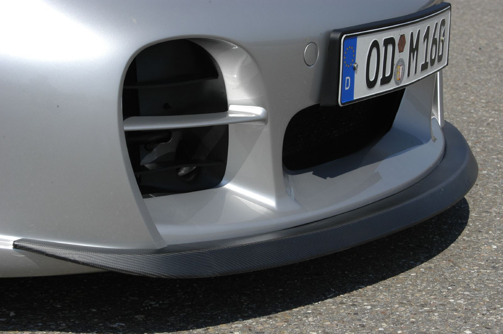 TechArt GT Street with carbon fibre front splitter.